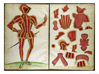 Design for armor of Robert Dudley, Earl of Liecester